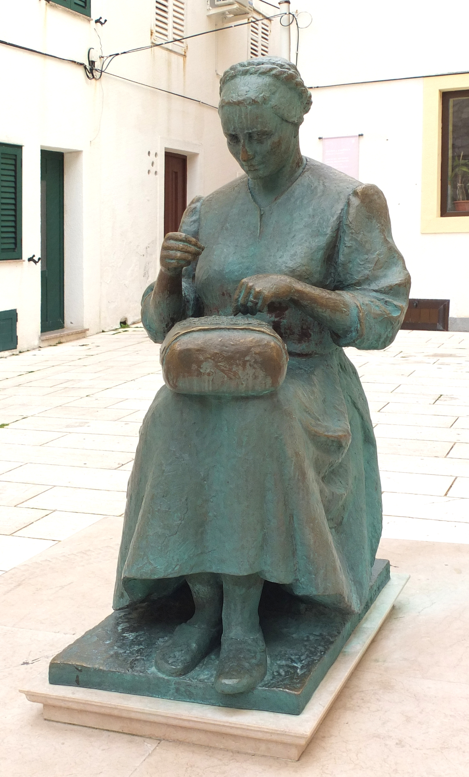 Bronze statue of a Pag lace-maker, Ulica od Špitala, Pag (town), Croatia.